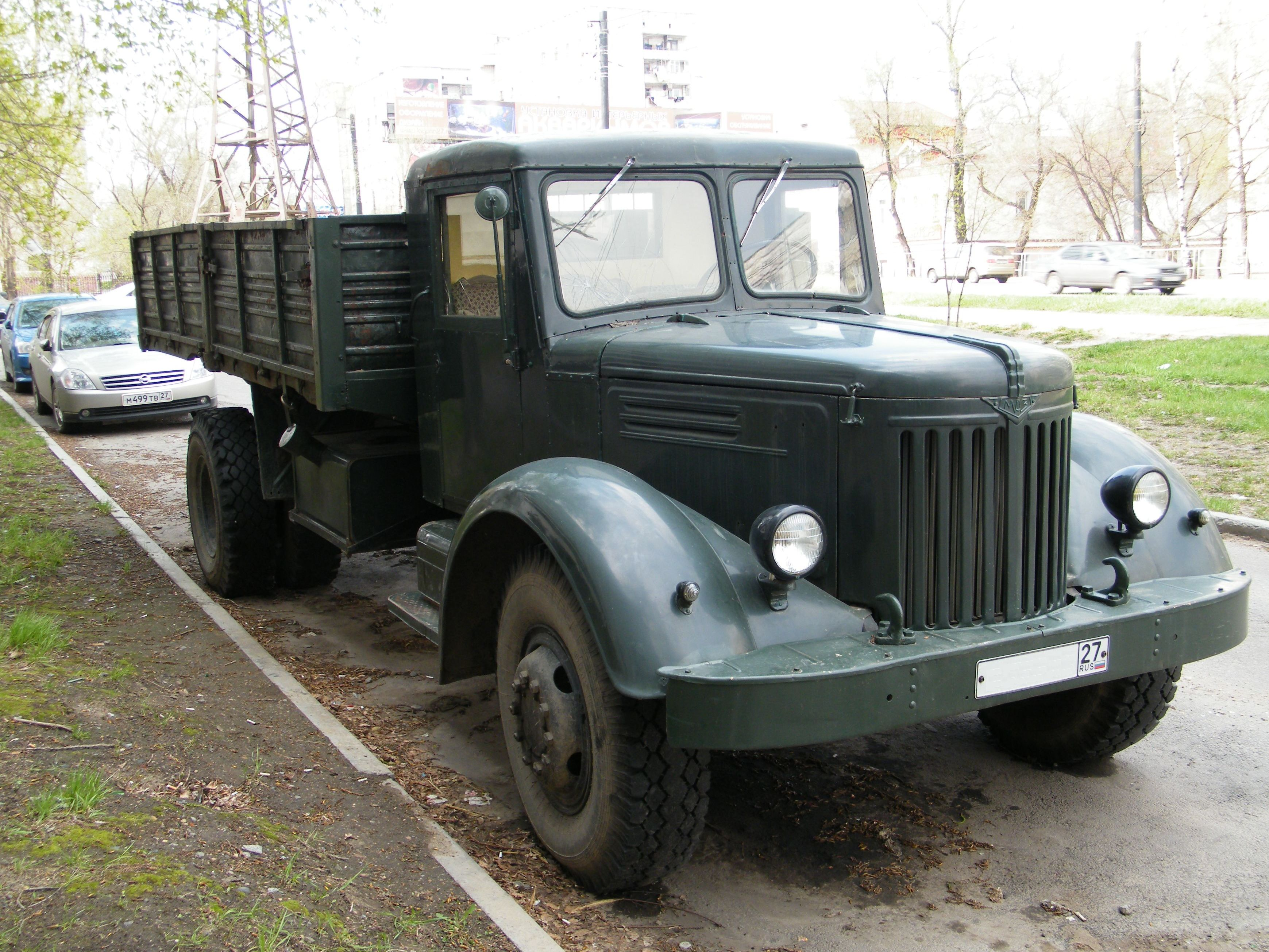 MAZ-200